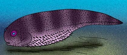 crop of file in file name